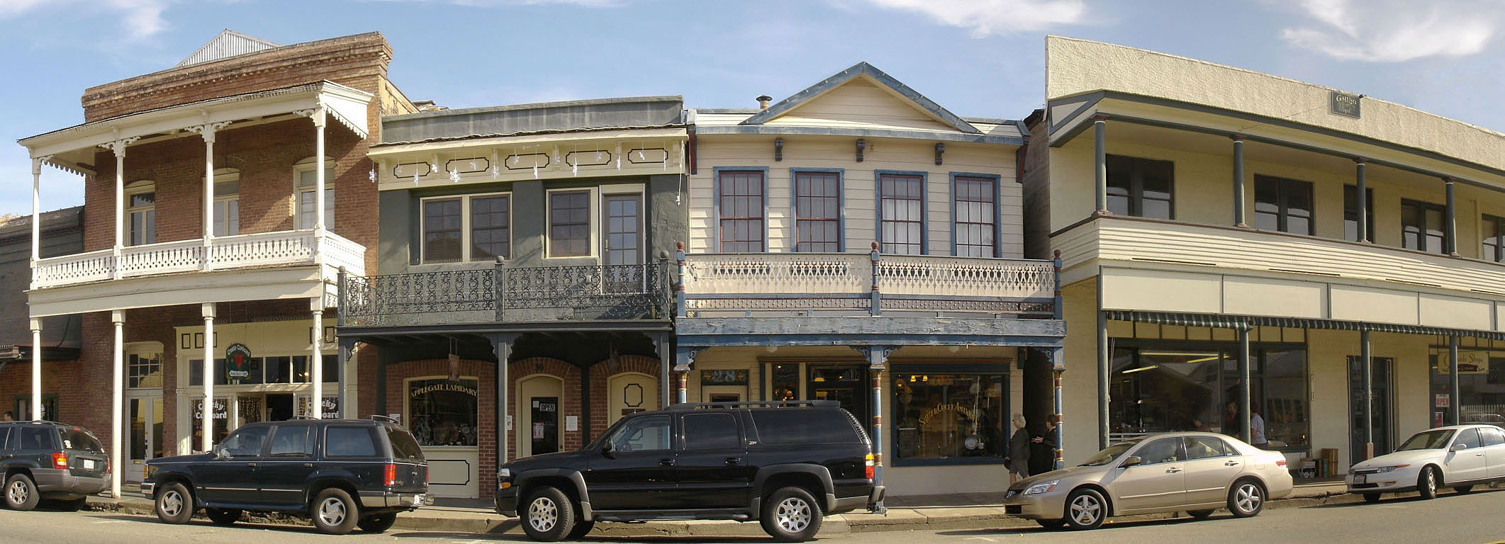 A view of Main Street (Old Highway 49) in Sutter Creek, CA. Shows historic buildings.